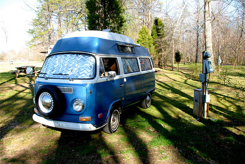 First Camping Trip With Ganesh - The Big Blue Bus